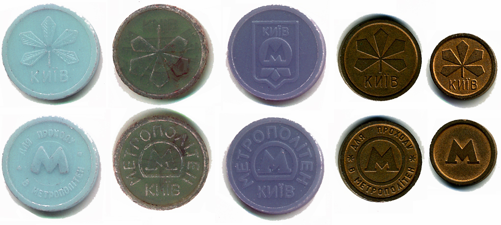 м